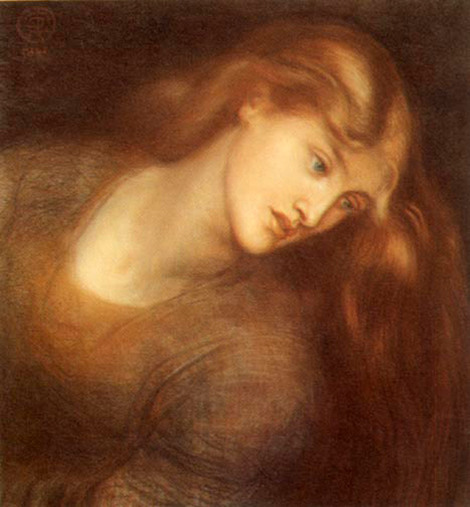 Aspecta Medusa (model: Alexa Wilding